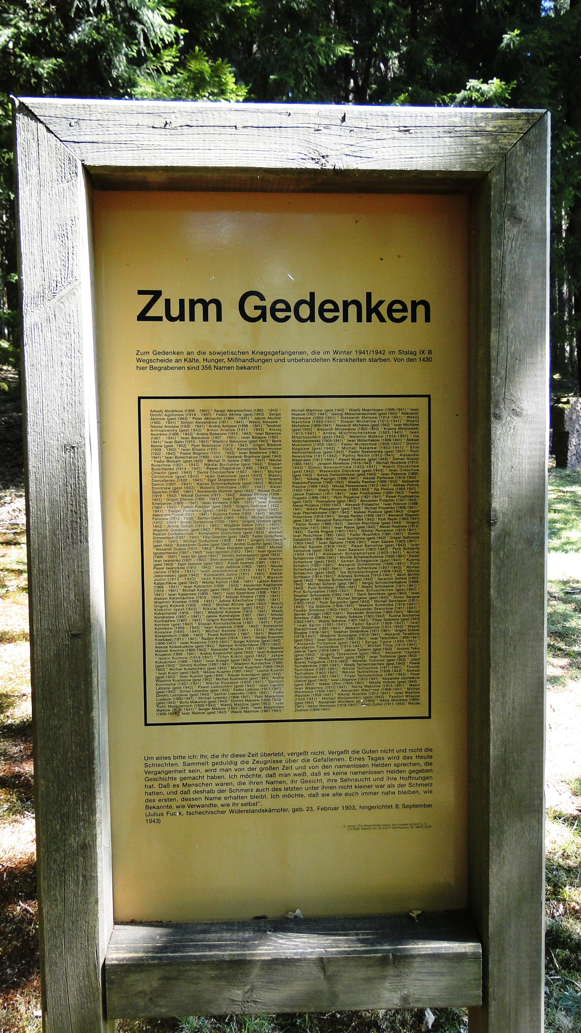 Sign with the names of 356 dead Soviet POWs who died at Stalag IX-B near Bad Orb, Hesse, Germany